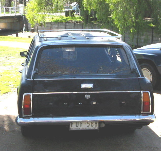 1968-1969 Holden HK Premier Wagon